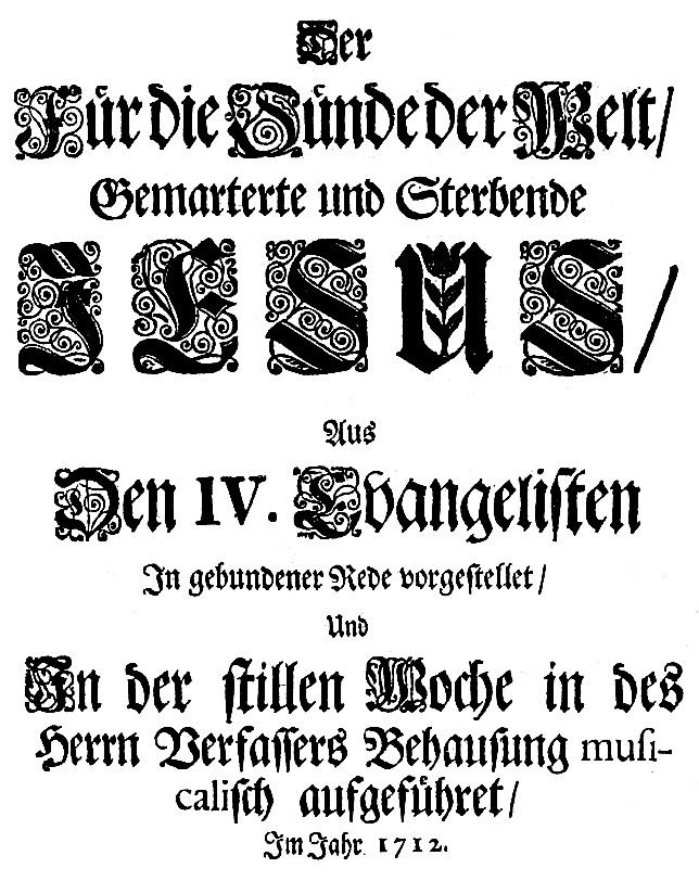 Brockes - Der für die Sünde der Welt gemarterte und sterbende Jesus - titlepage of the libretto from 1712